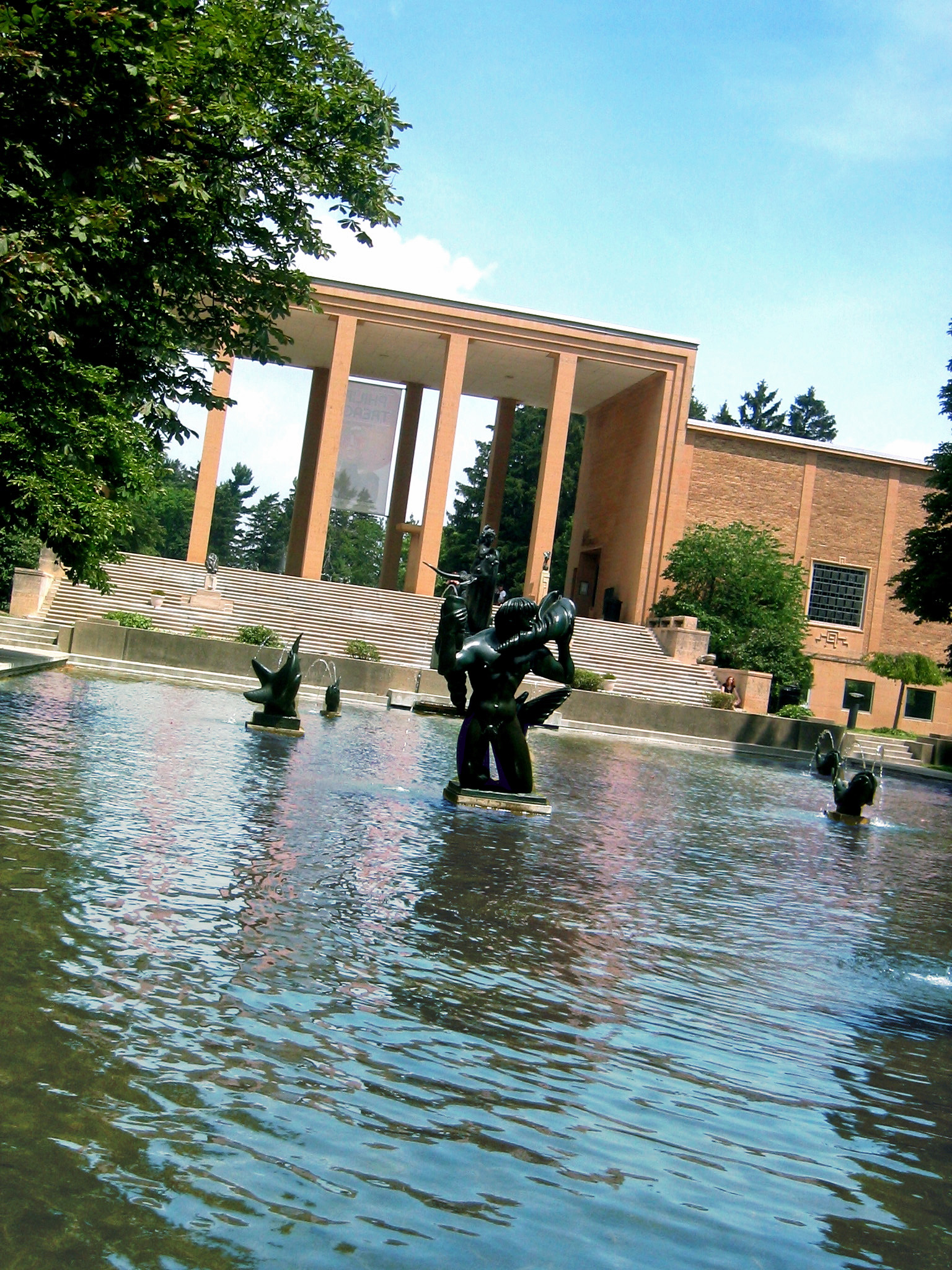 The art museum and library at the Cranbrook Academy of Art. The building was designed by world-renowned architect Eliel Saarinen as part of his master plan for the Cranbrook Educational Community.